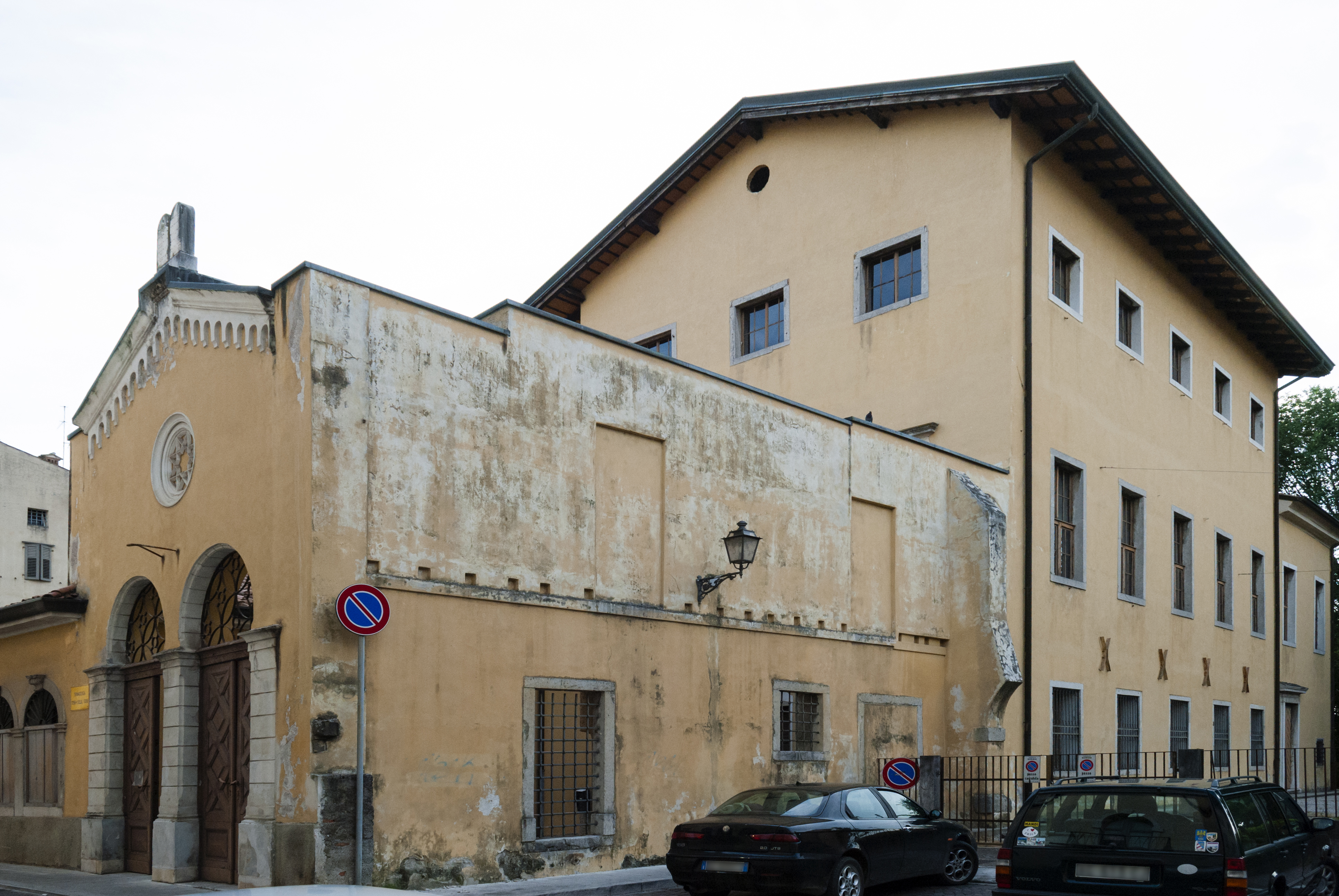 View of Synagogue of Gorizia.